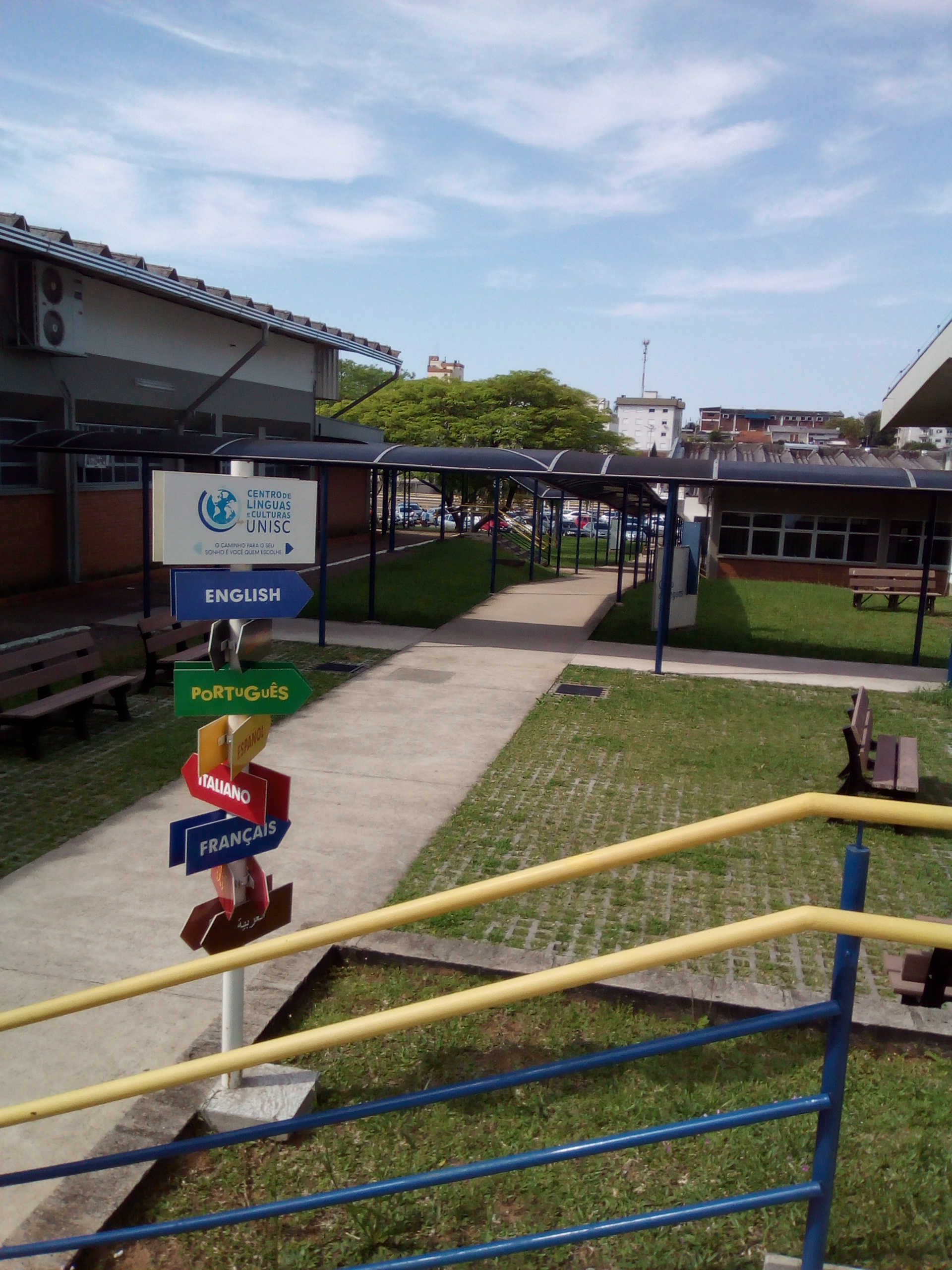 Language Department, Universidade de Santa Cruz do Sul